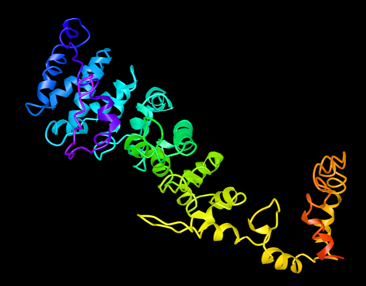 I-TASSER assembled and then aligned with 5VOX, which is a Yeast V-ATPase, and after large drop off 3m62A, a Ufd2 complexed with ubiquitin-like domain Rad23